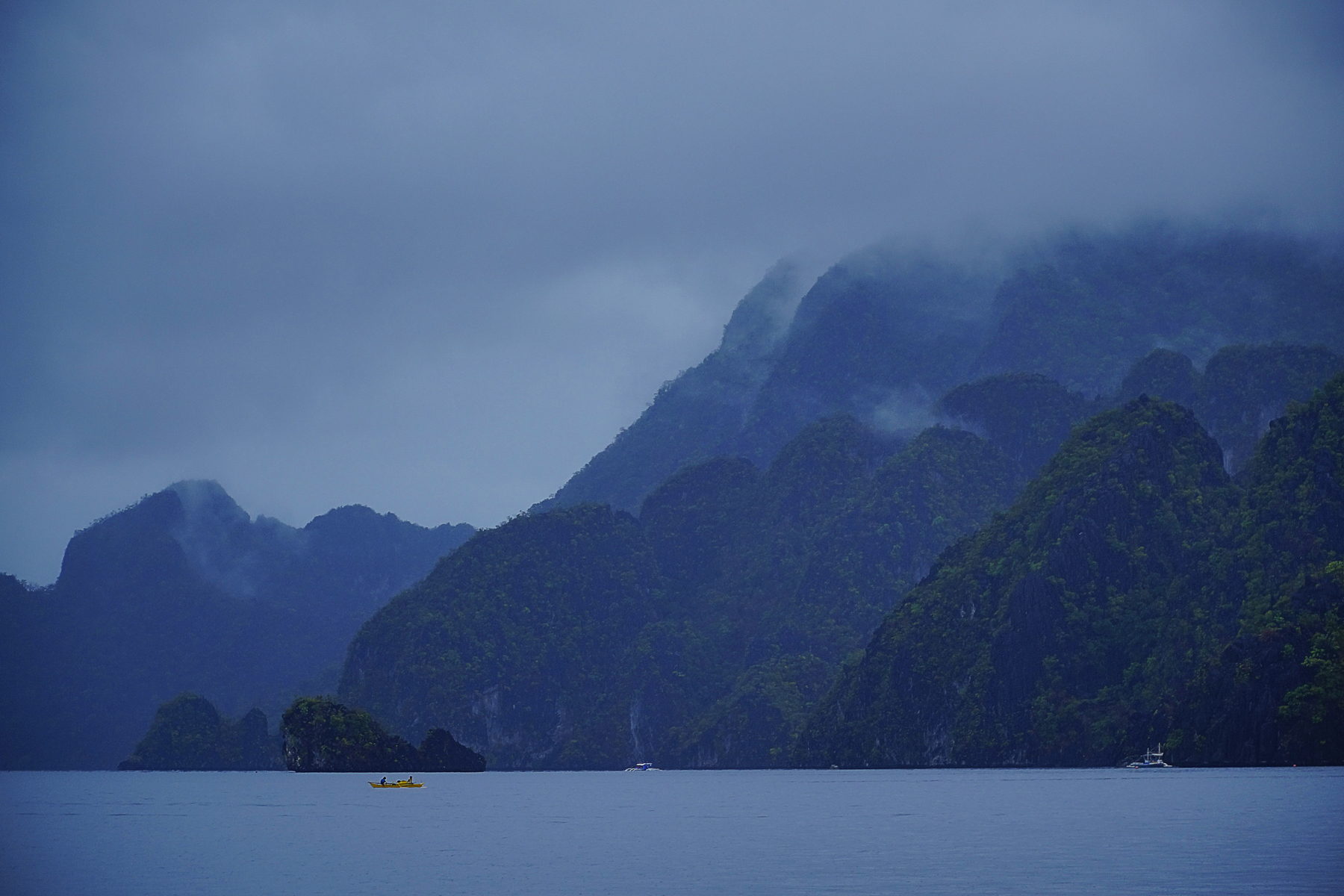 Considered as a watershed forest reserve in the Philippines.